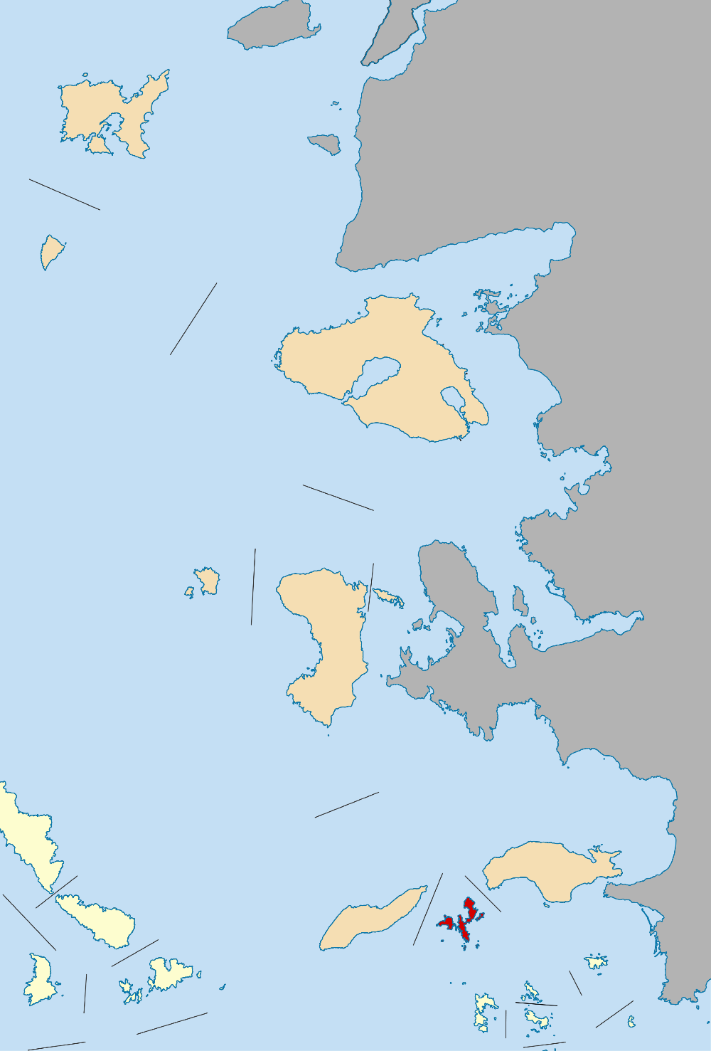 Locator map for Fourni Korseon municipality in Greek region North Aegean (2011)